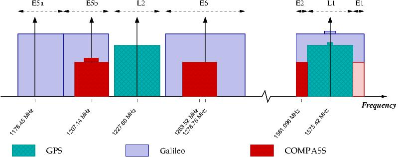 sketch of the frequency allocation by satellite navigation systems